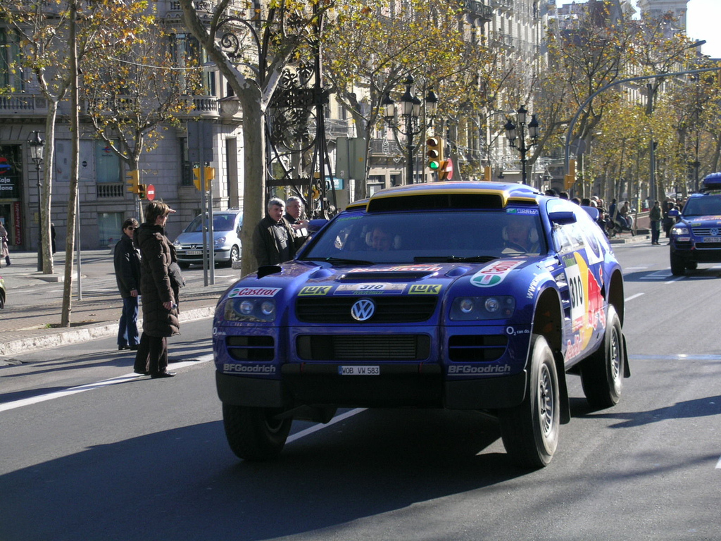 VW Touareg, Rallye Dakar, Paris, 2005, driven by Jutta Kleinschmidt